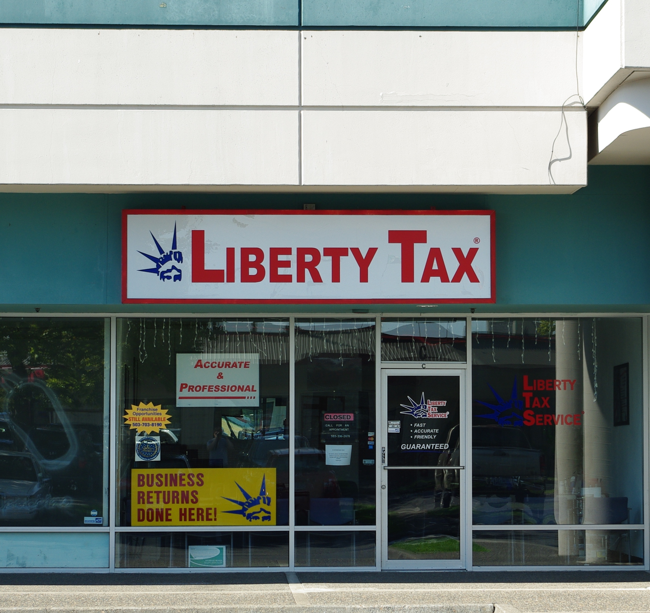 Liberty Tax at the Cornell Square in Hillsboro, Oregon.